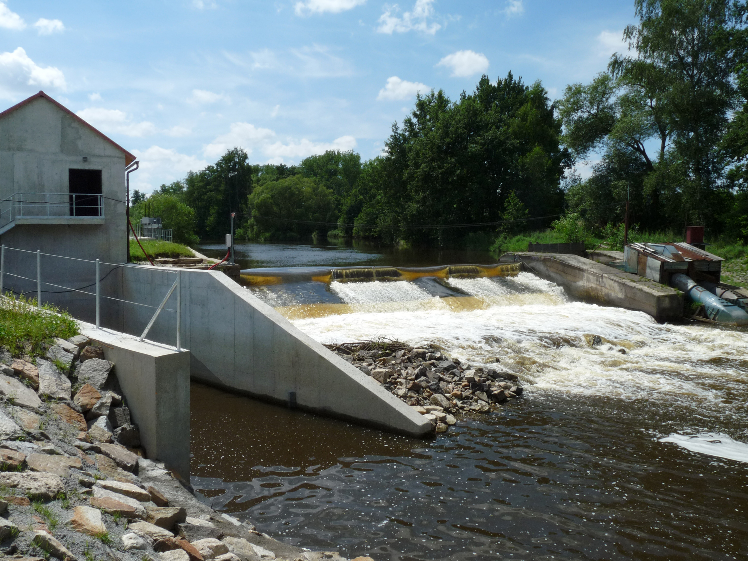 Weir on the Malše river in Vidov, České Budějovice district, Czech Republic